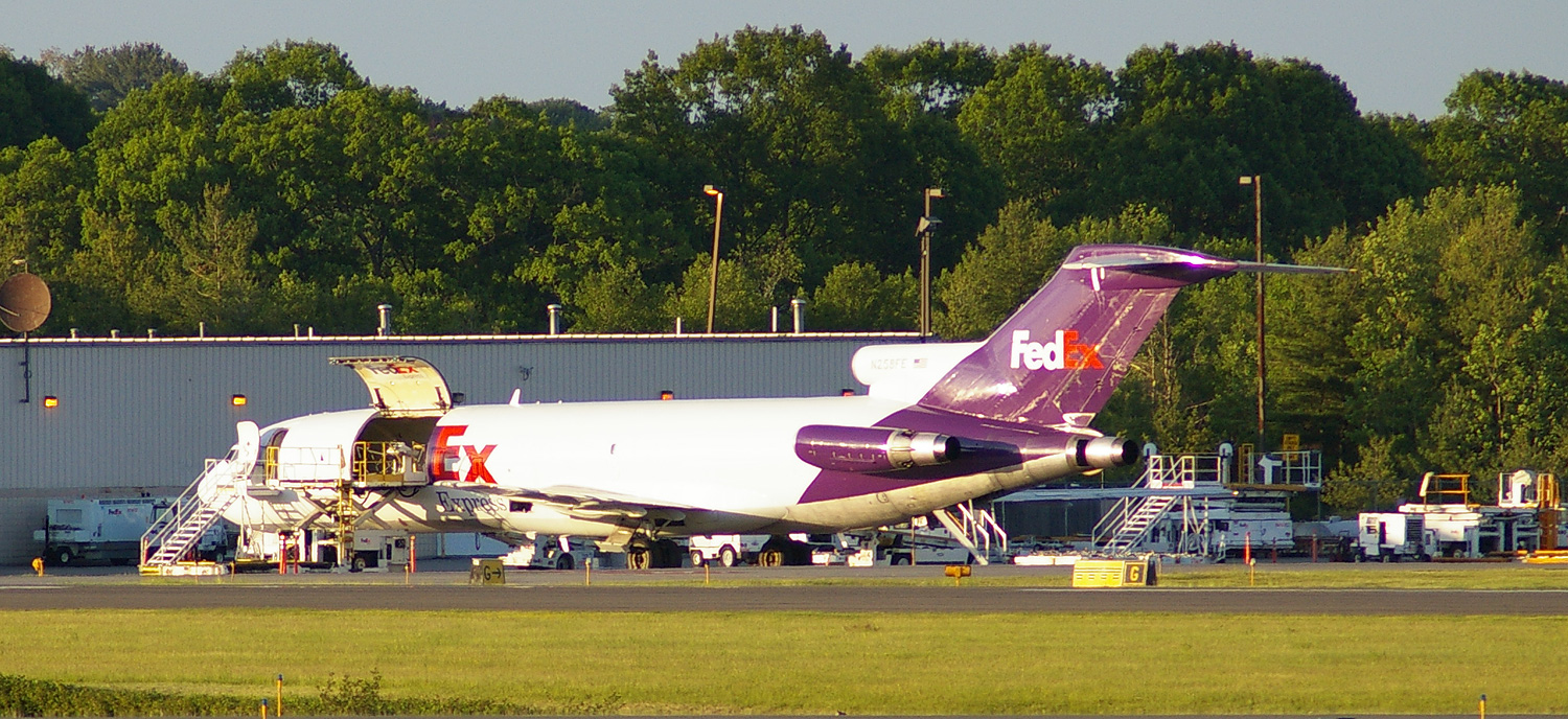 FedEx 727 at Portland International Jetport. Photo taken from public property.